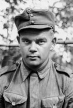 Kaarlo Laitinen, Knight of the Mannerheim Cross #83